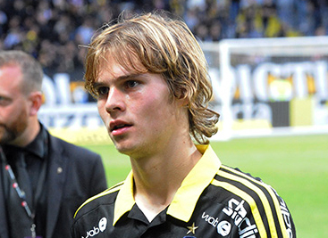 Sam Lundholm after AIK-Häcken (2014)